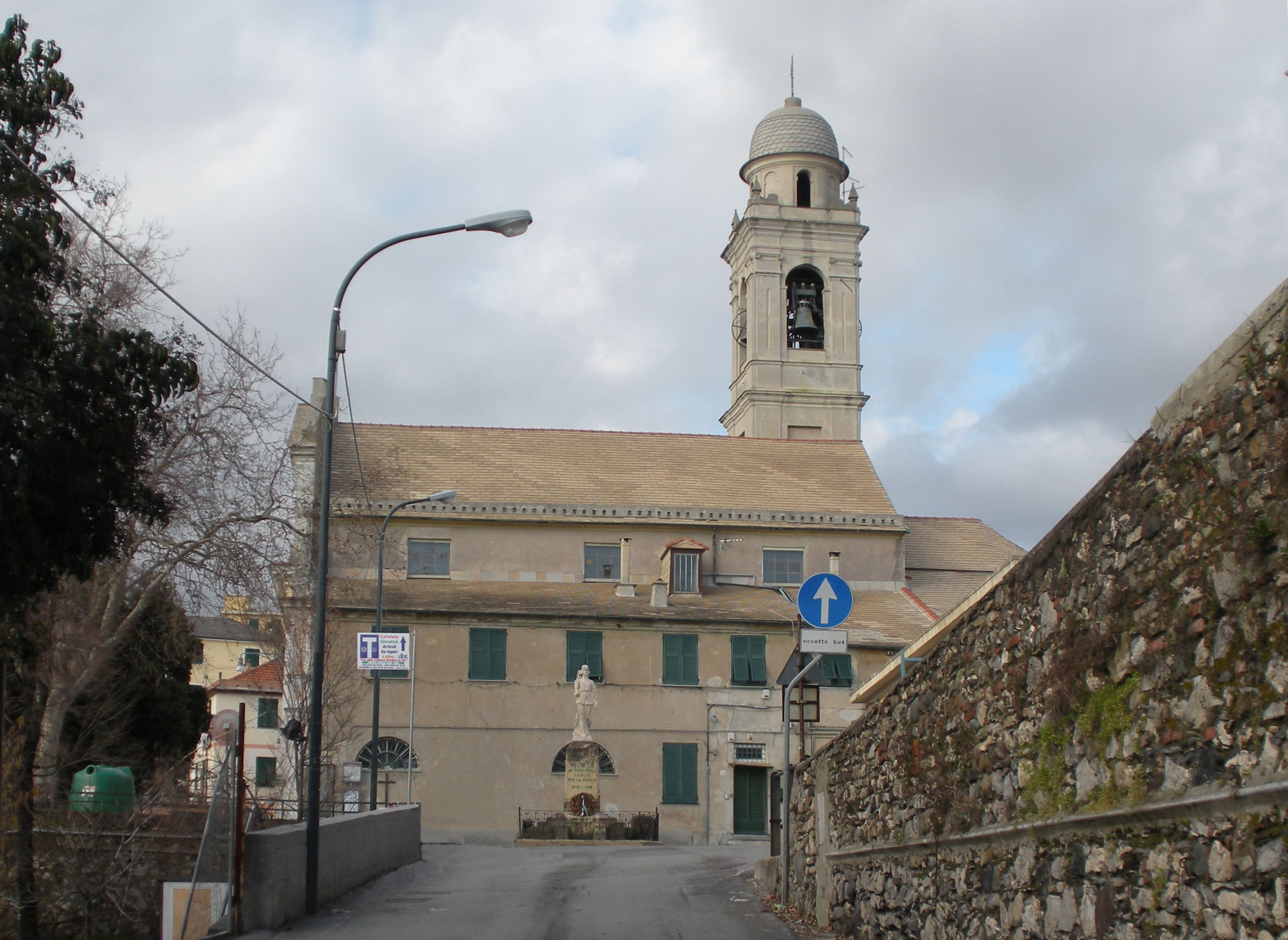 Genoa-Bolzaneto (Italy), the church square of Murta